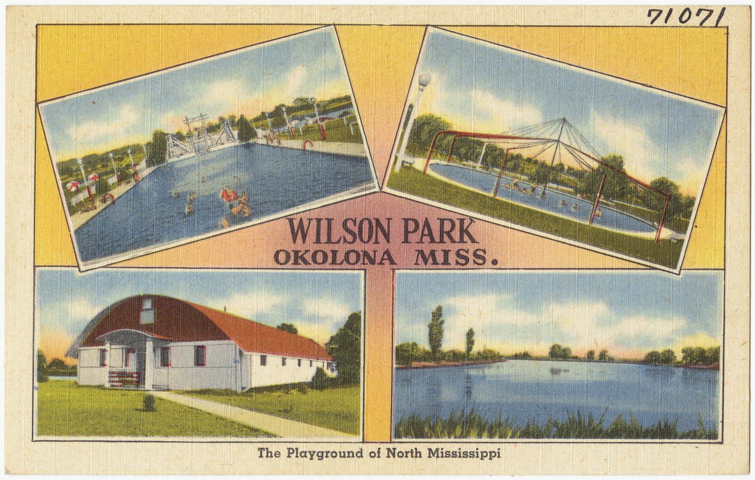 File name: 06_10_015018 Title: Wilson Park, Okolona Miss. Created/Published: Tichnor Bros. Inc., Boston, Mass. Date issued: 1930 - 1945 (approximate) Physical description: 1 print (postcard) : linen texture, color ; 3 1/2 x 5 1/2 in. Genre: Postcards Subjects: Parks Notes: Collection: The Tichnor Brothers Collection Location: Boston Public Library, Print Department Rights: No known restrictions